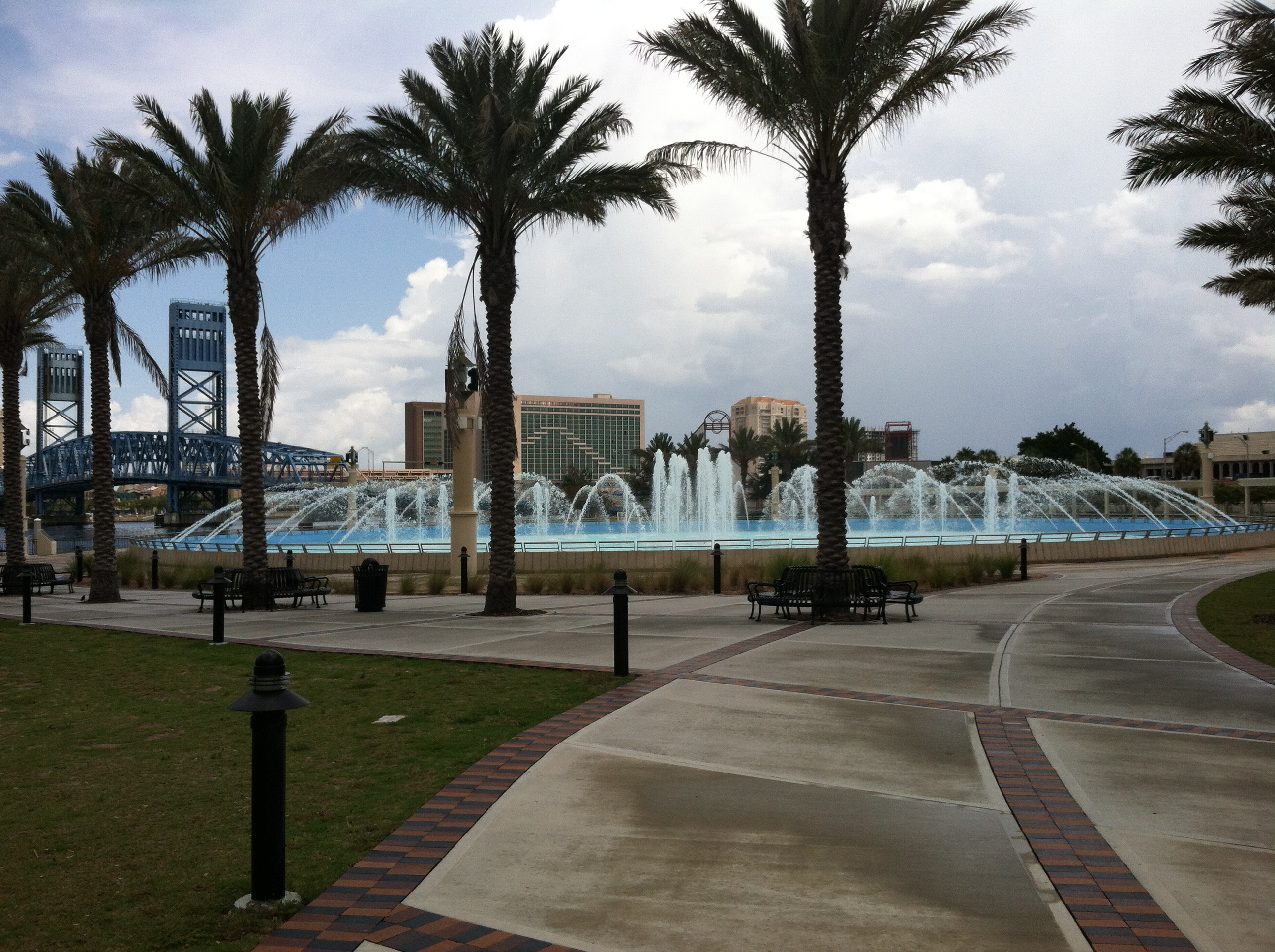 Image of Friendship park and fountain showing pavers, lighting and renovated fountain with the Main Street bridge in the background